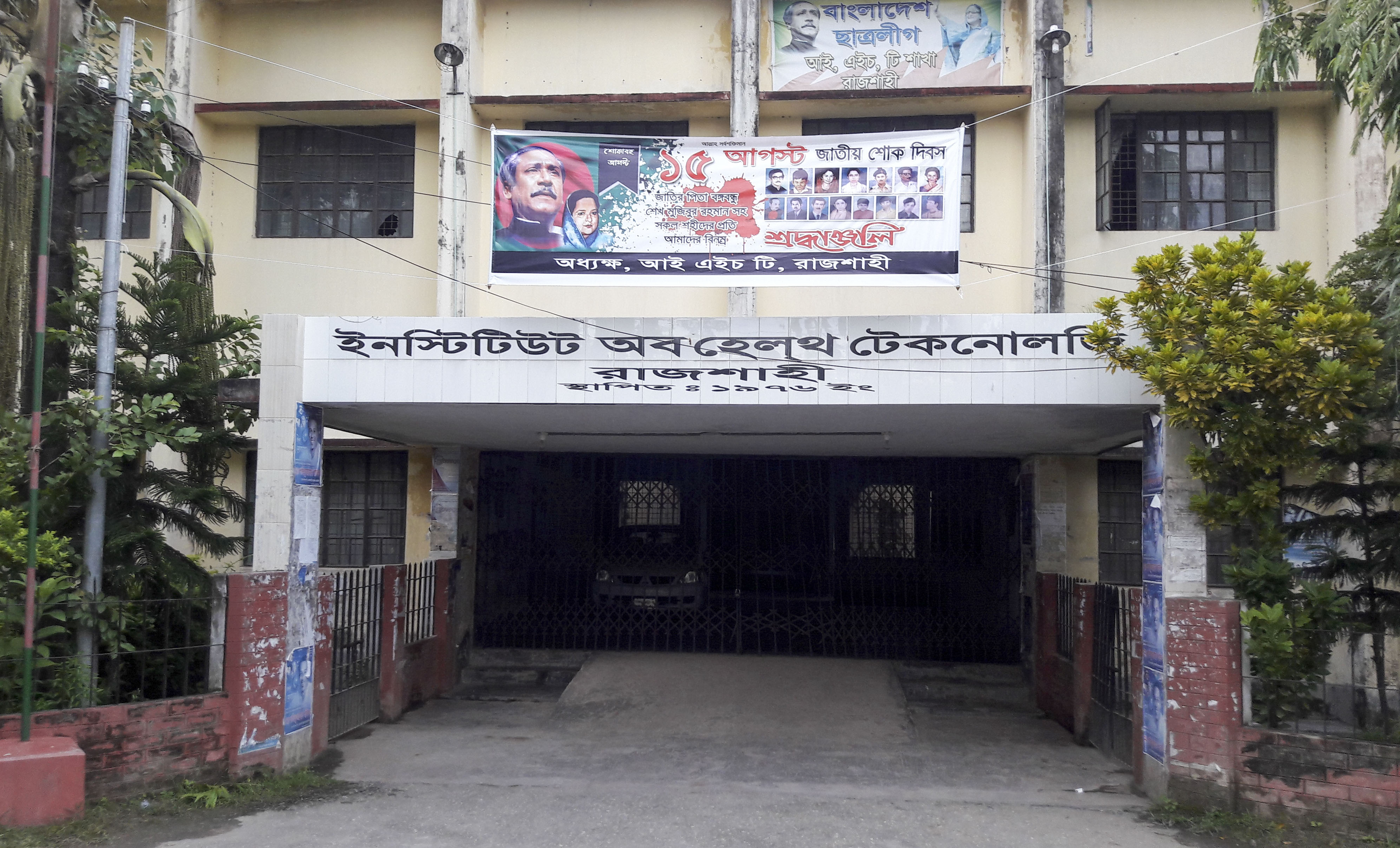 Institute of Health Technology, Rajshahi or short form I.H.T Rajshahi One of the Government Medical Institute in Rajshahi, Bangladesh.